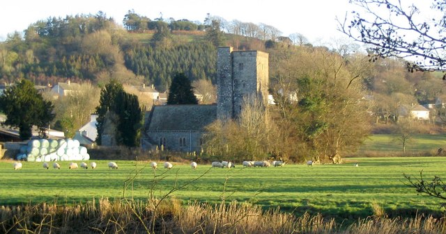 Eglwys Sant Pedr Llanybydder Photo taken from across the river at approx.4pm